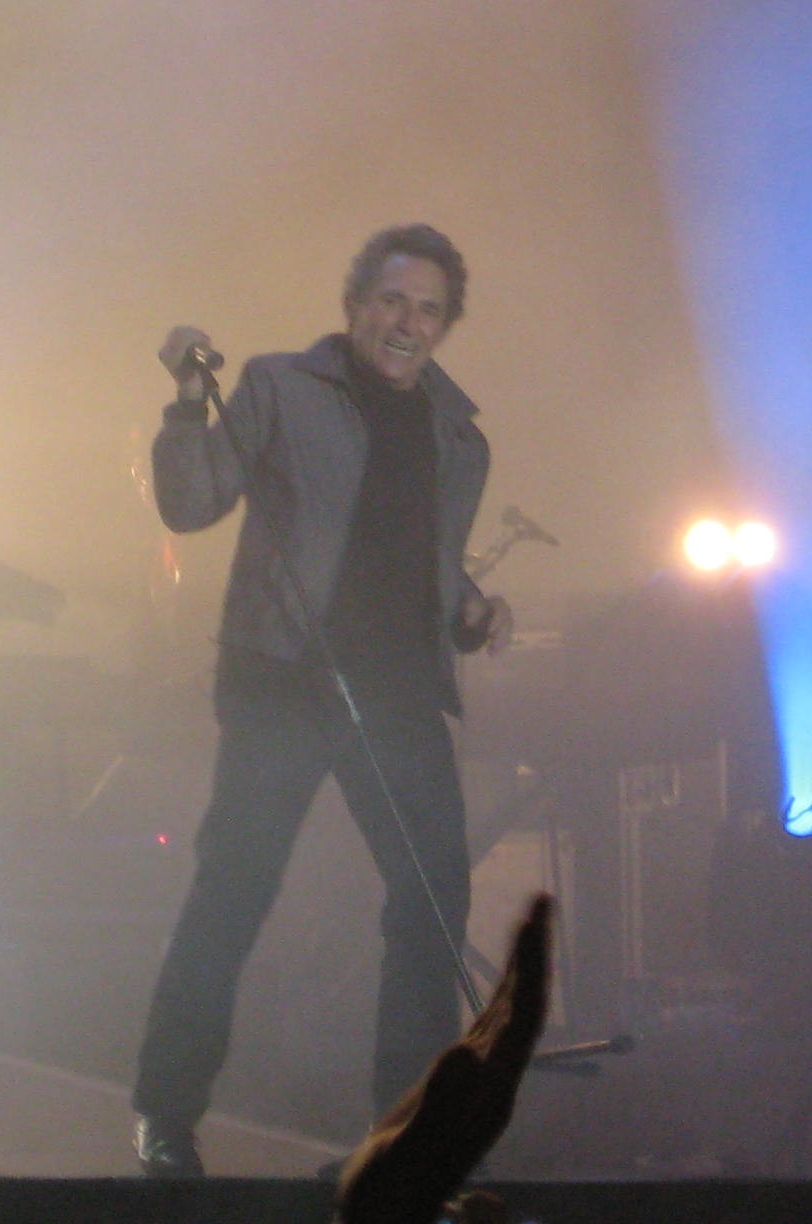 Spanish rocker Miguel Ríos acting live in Aste Nagusia 2009, Bilbao.